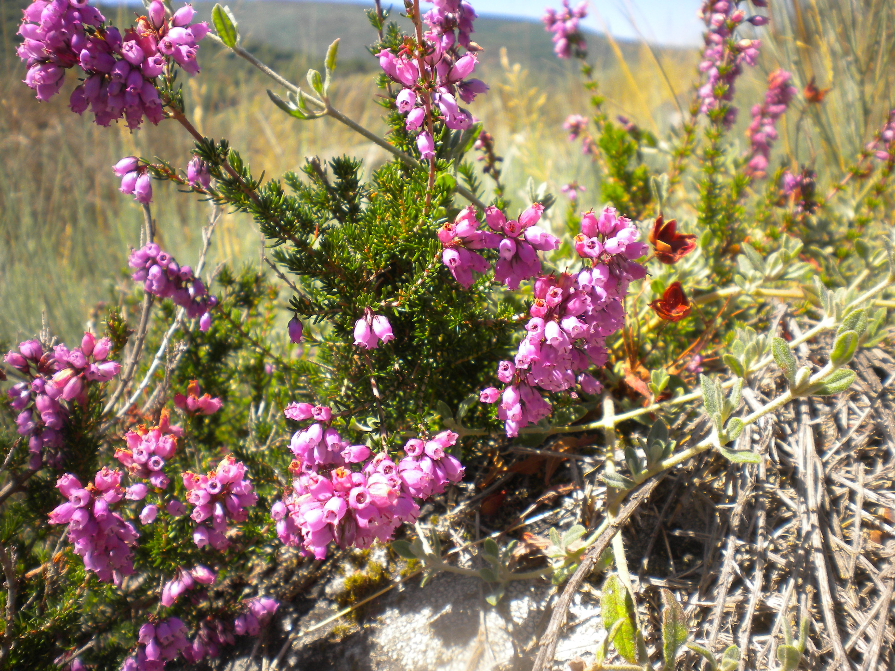 Erica cinerea in Orense, Spain.